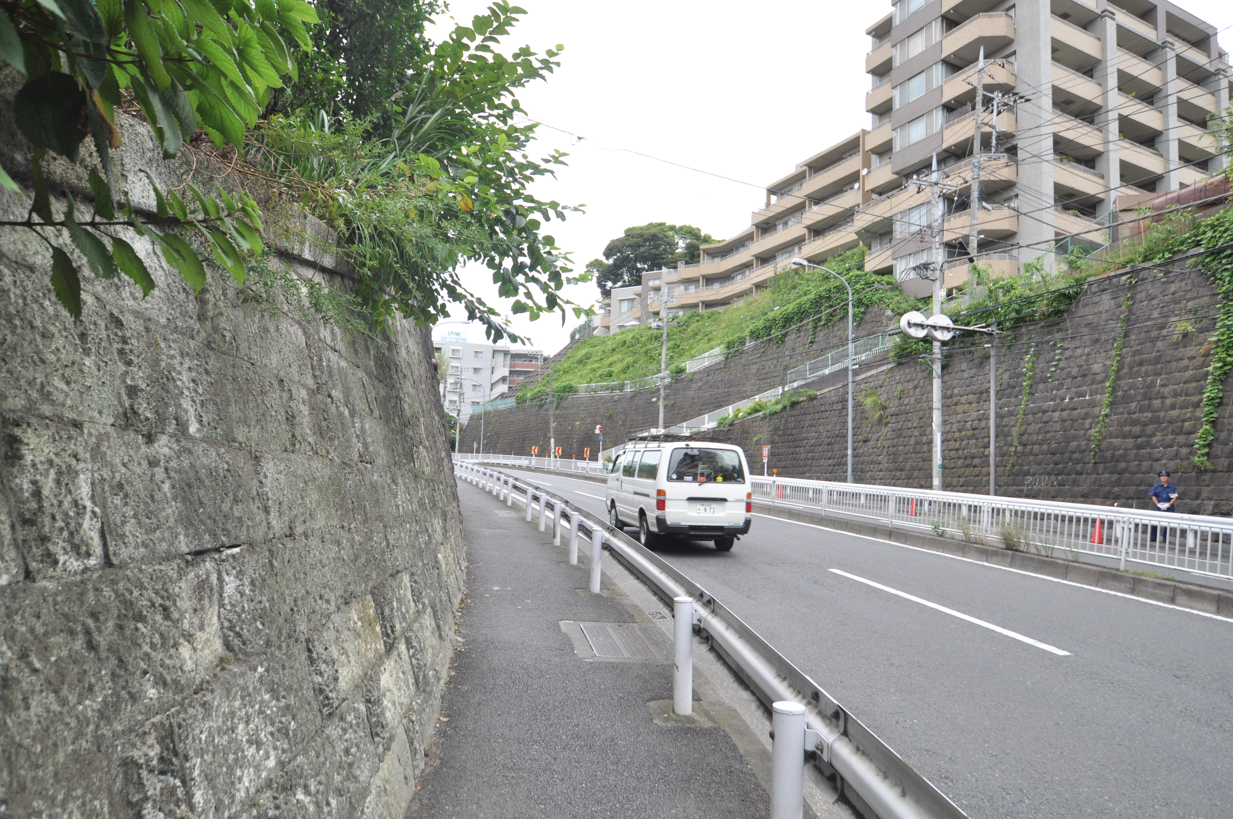 view of a slope in Noge, Yokohama